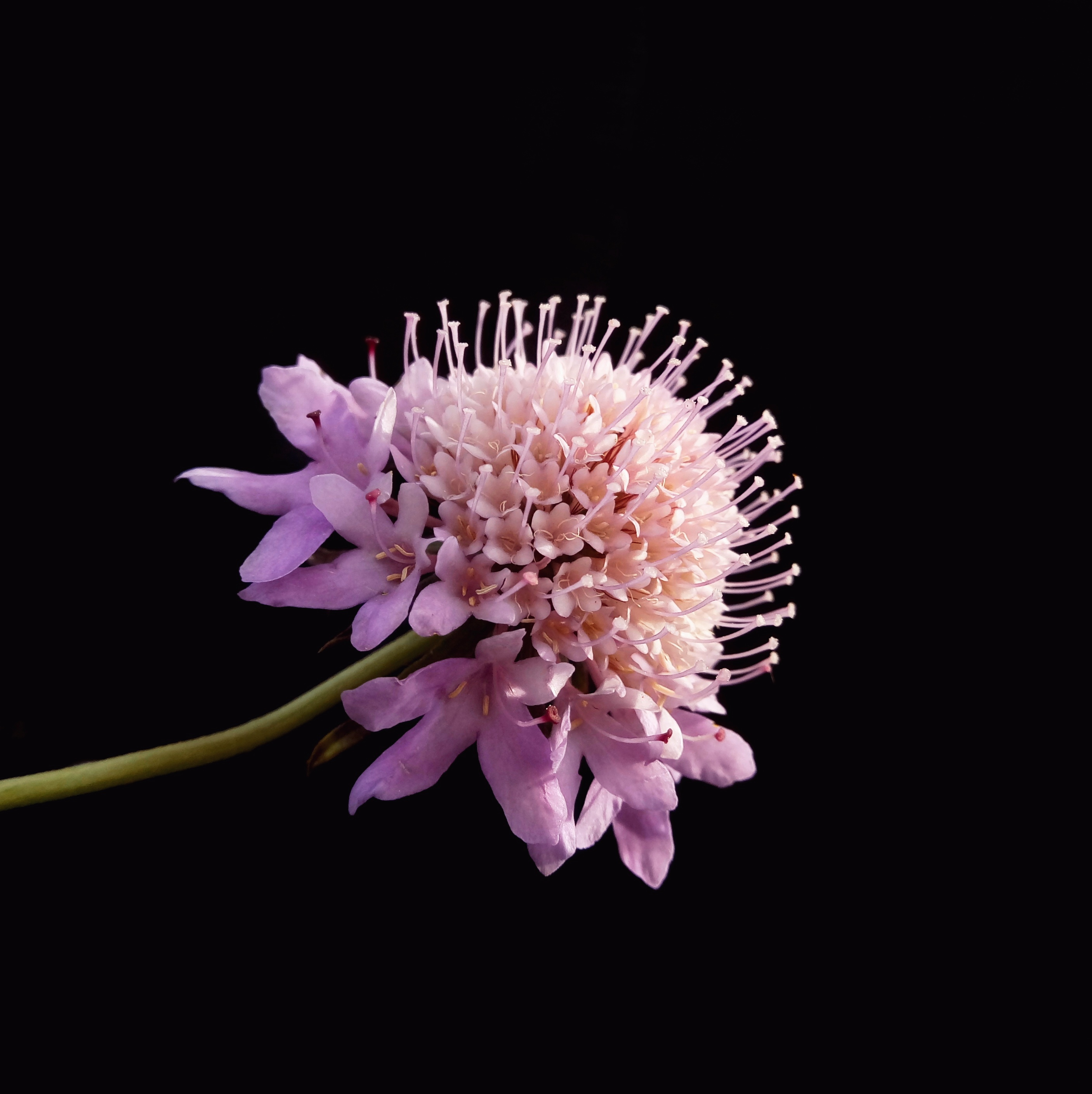 Scabiosa atropurpurea maritima is an ornamental plant of genus Scabiosa in the family Caprifoliaceae